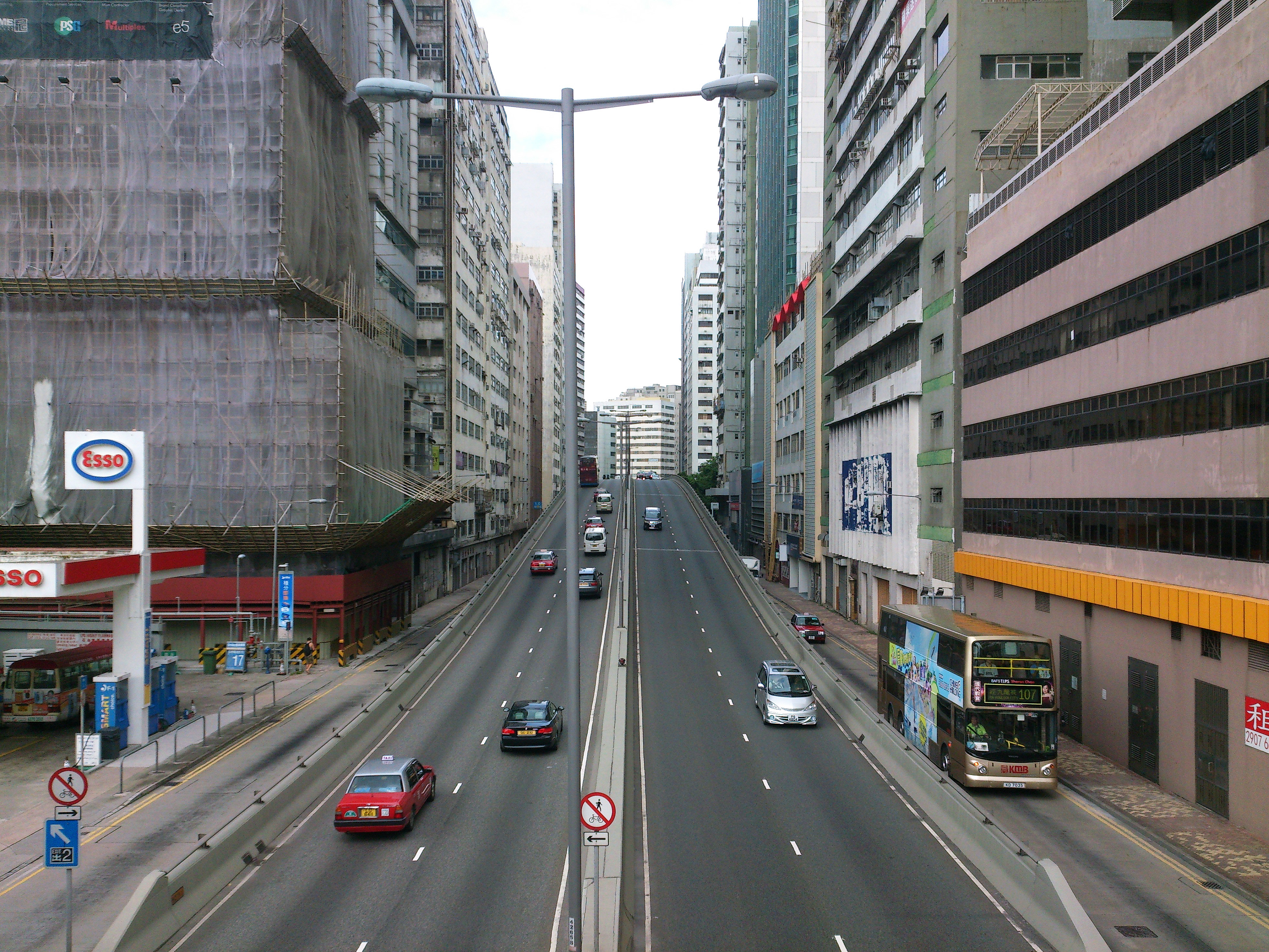 Wong Chuk Hang Road Flyover east end